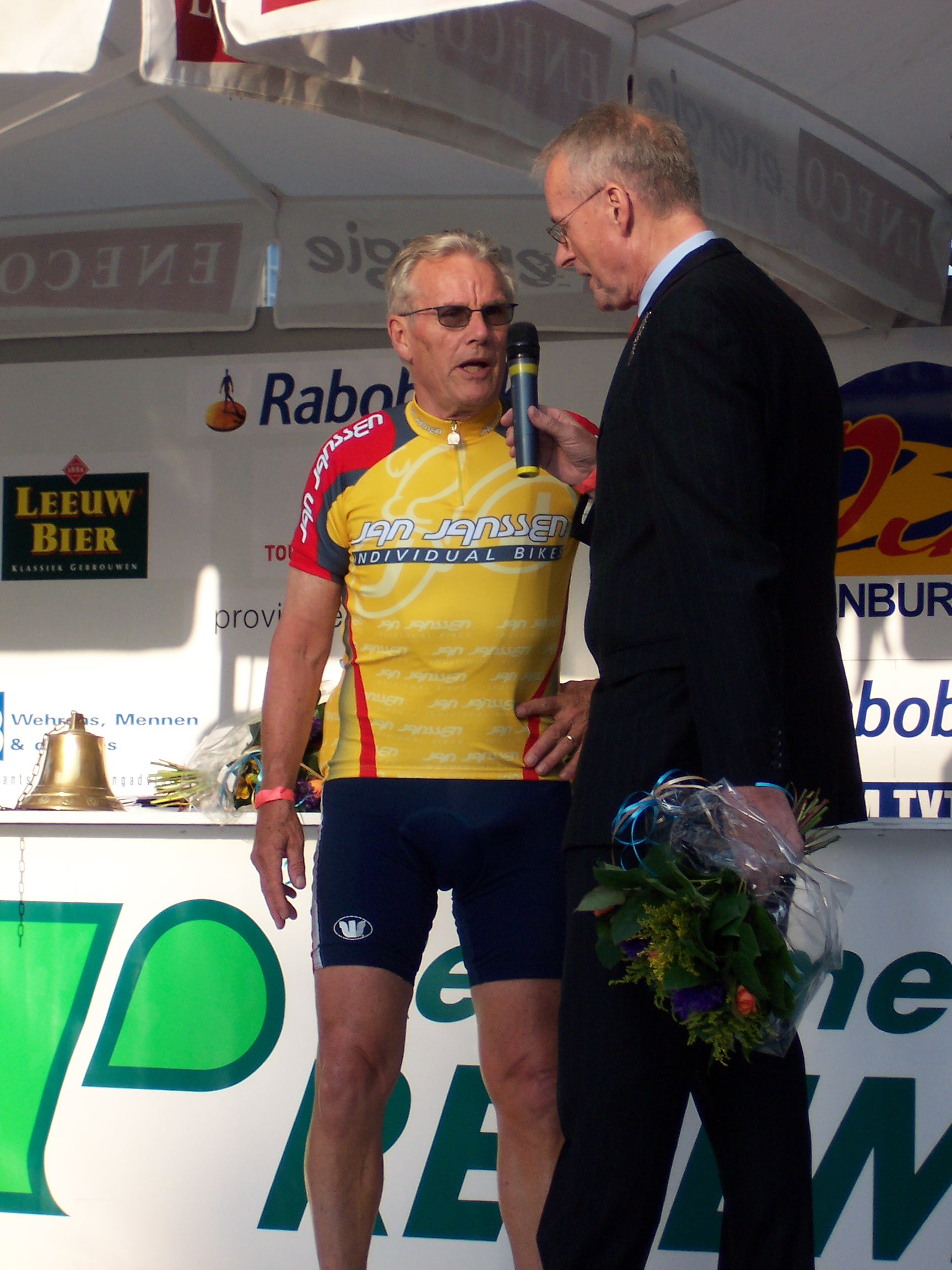 Former Tour De France winner Jan Janssen in Valkenburg 2006